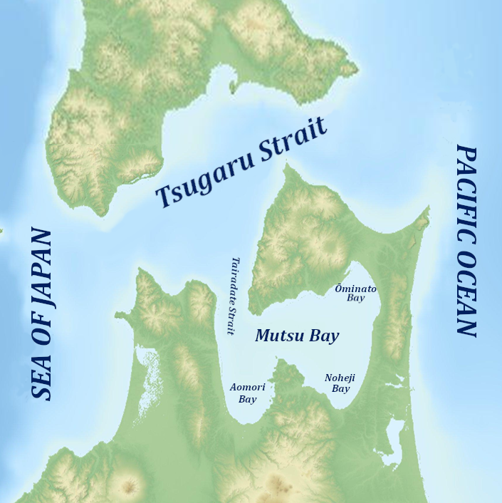 A map of the bodies of water around southern Hokkaido and northern Aomori Prefecture. Map is based on the Japanese version uploaded by Kyoyaku